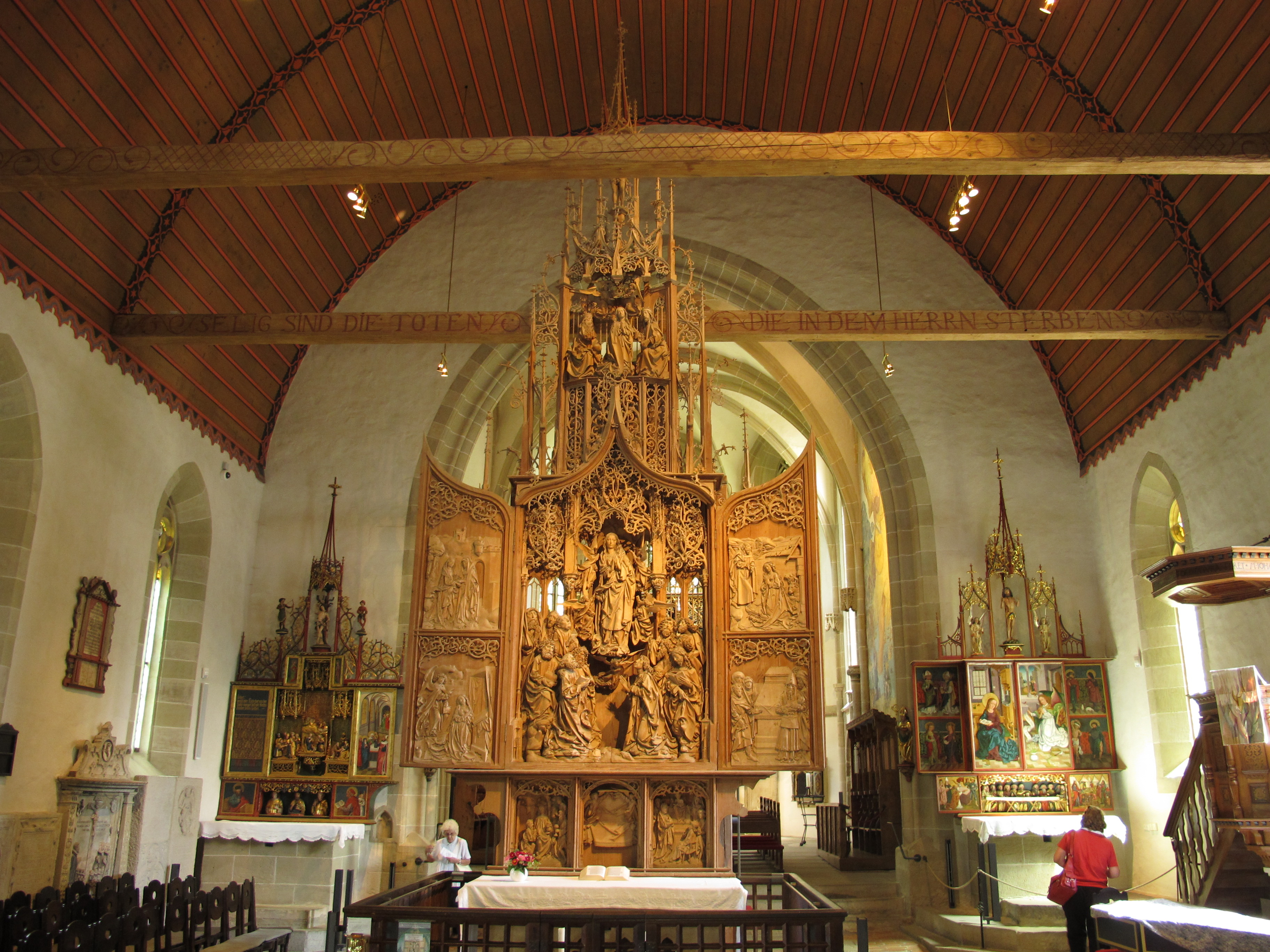 Interior of the Herrgottskirche ("Our Lord's Church") in Creglingen, Germany